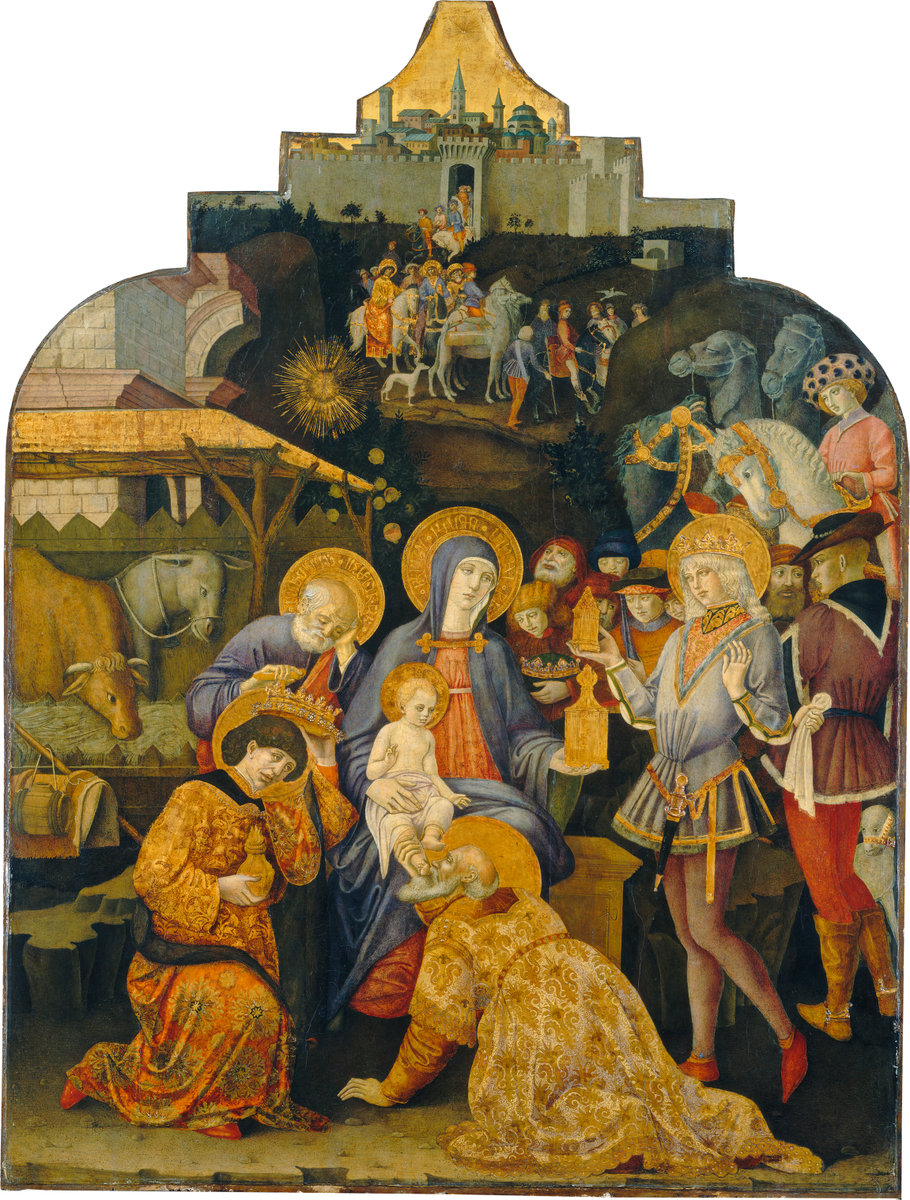 Benvenuto di Giovanni, The Adoration of the Magi, Italian, 1436 - before 1517, c. 1470/1475, tempera on panel, Andrew W. Mellon Collection